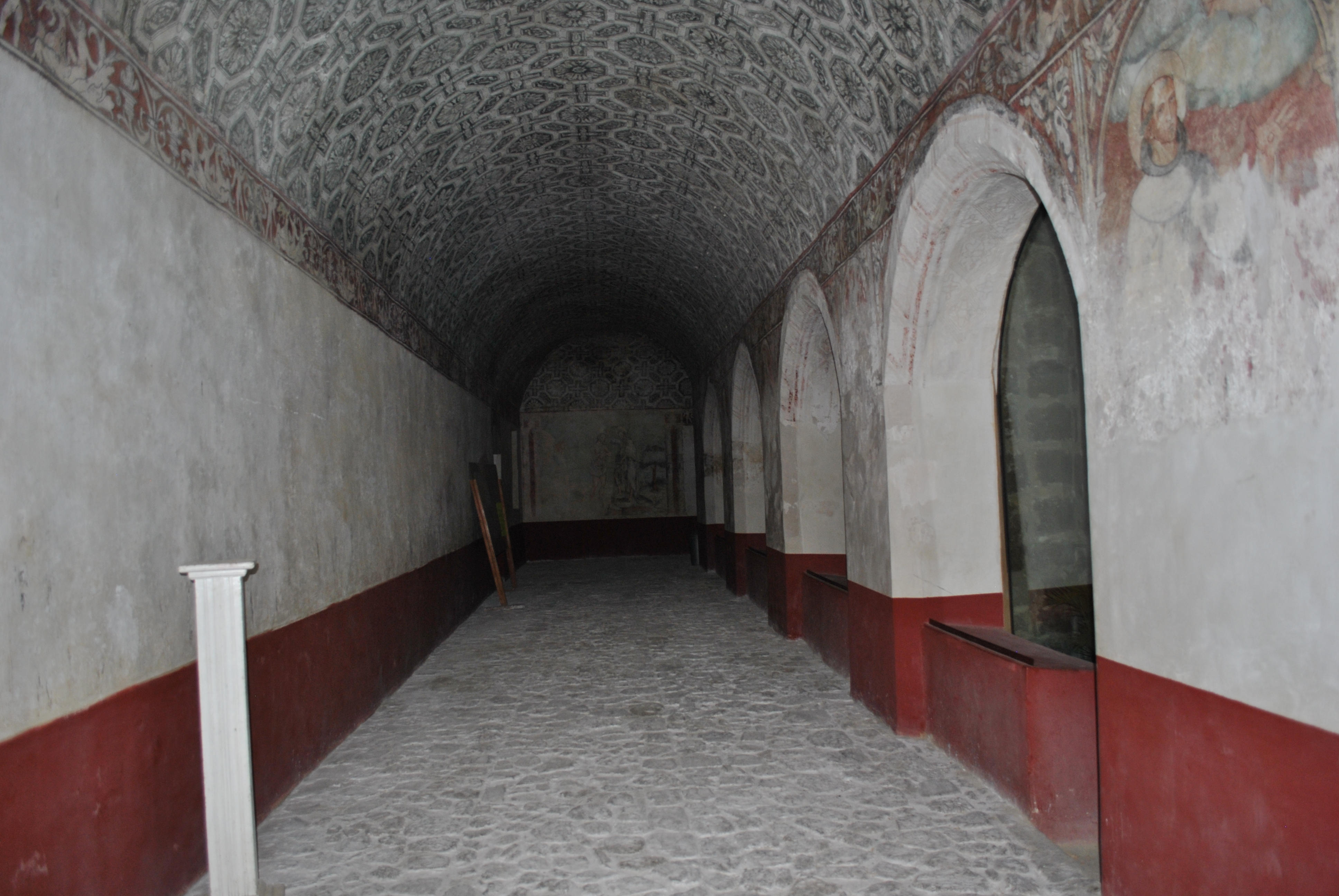 Former convent of San Juan Bautista of Tetela del Volcan, Morelos, Mexico